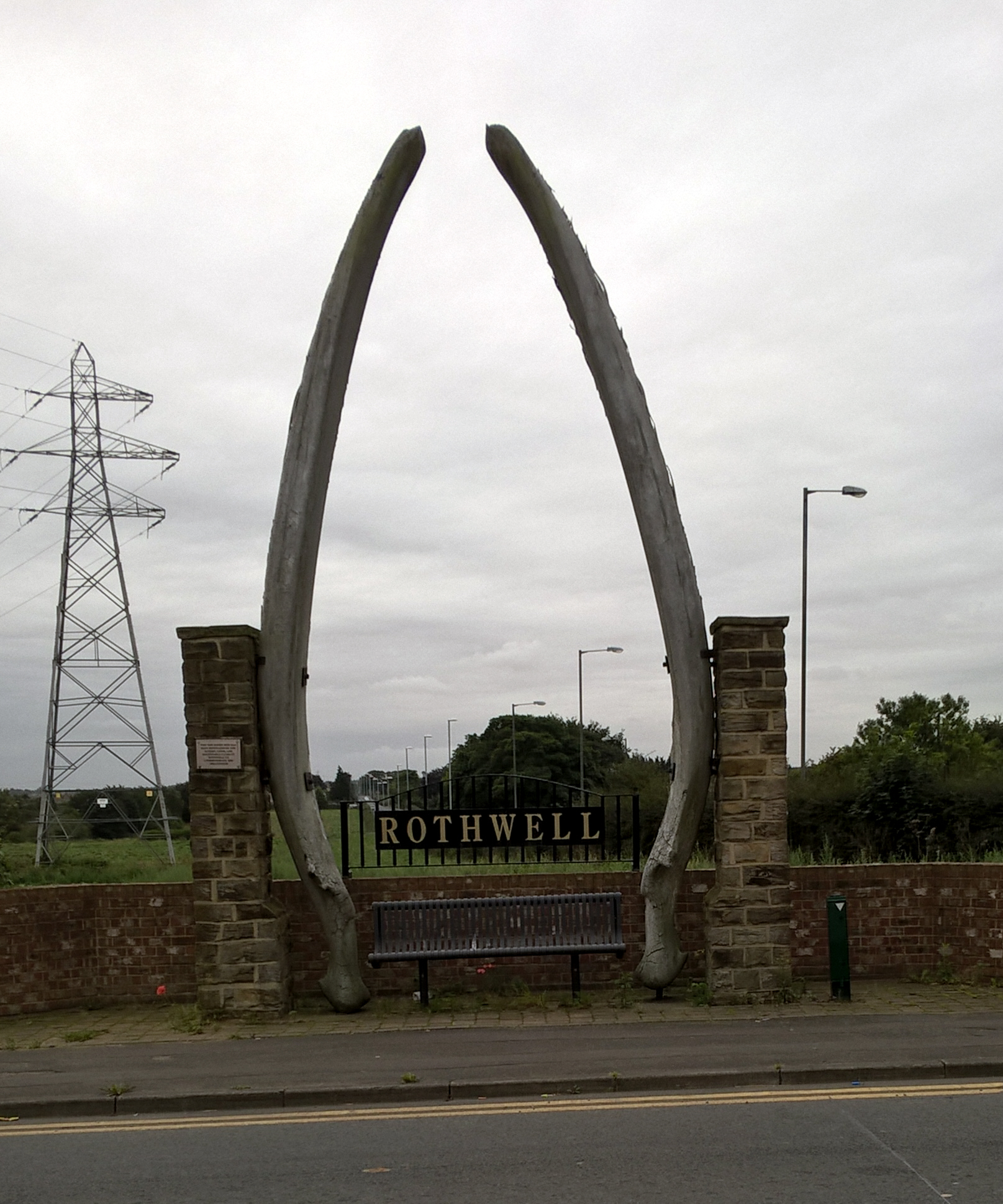 Jawbones of a Blue Whale at the boundary to Rothwell on Wood Lane, by the junction with the A61.